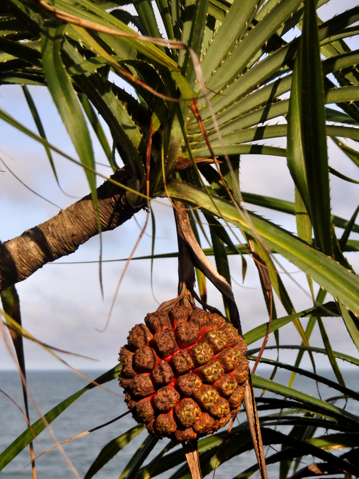 Pandanus odorifer; branch with ripe fruit. From southern Bangka Island, Indonesia.